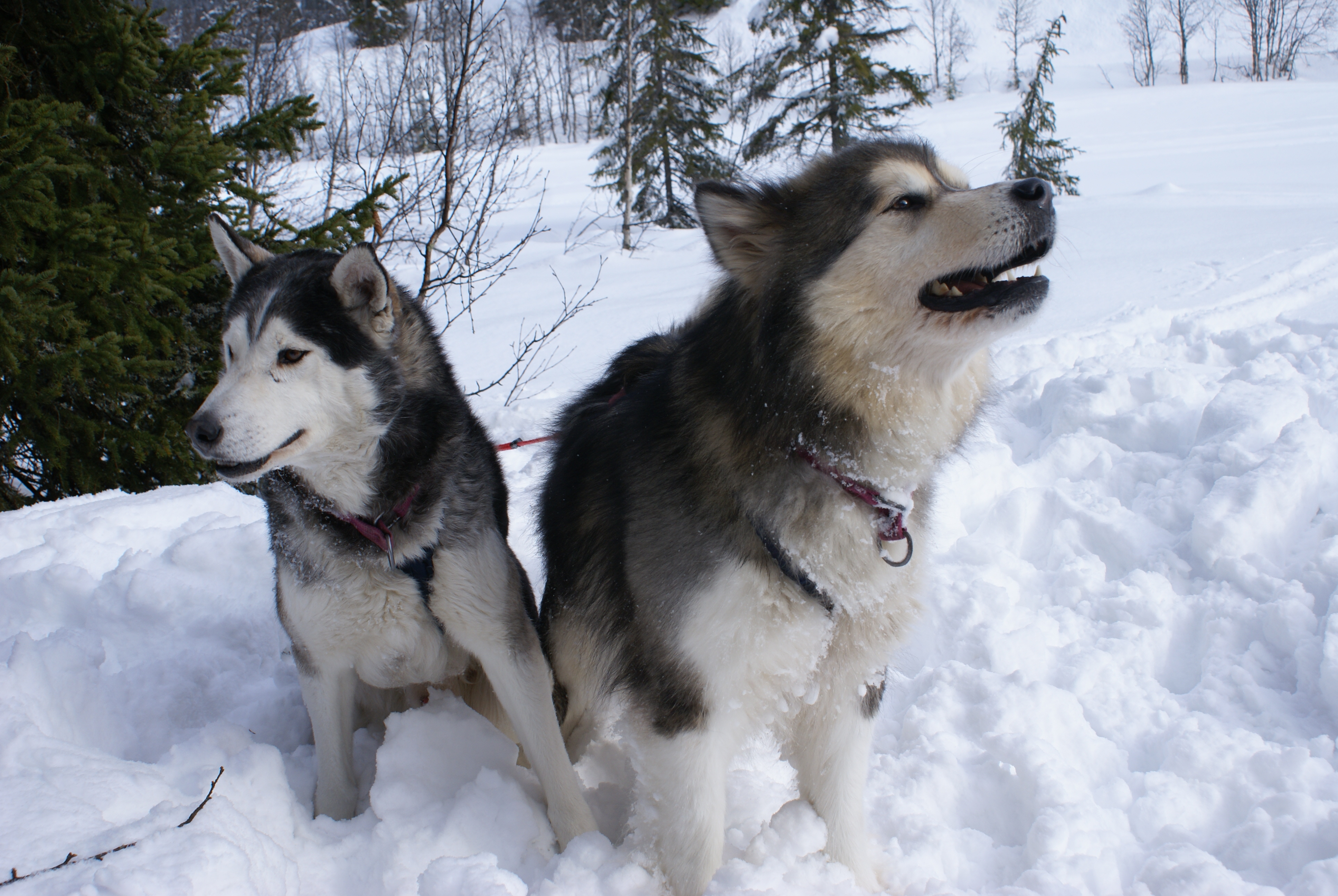 Siberian Husky "Ivan" (left) and Alaskan Malamute "Inu" (right) in Norway.